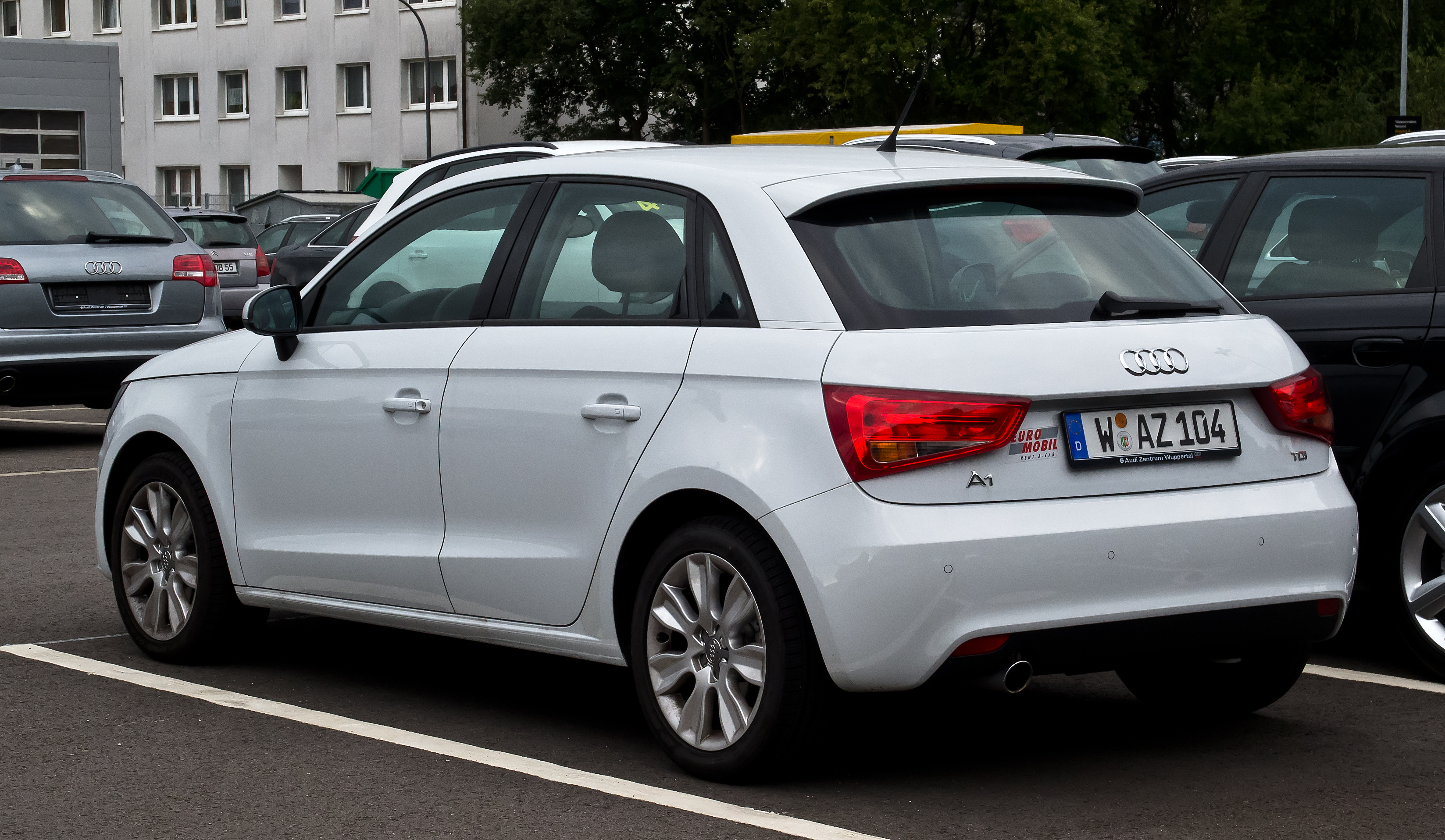 Audi A1 Sportback 1.6 TDI Ambition